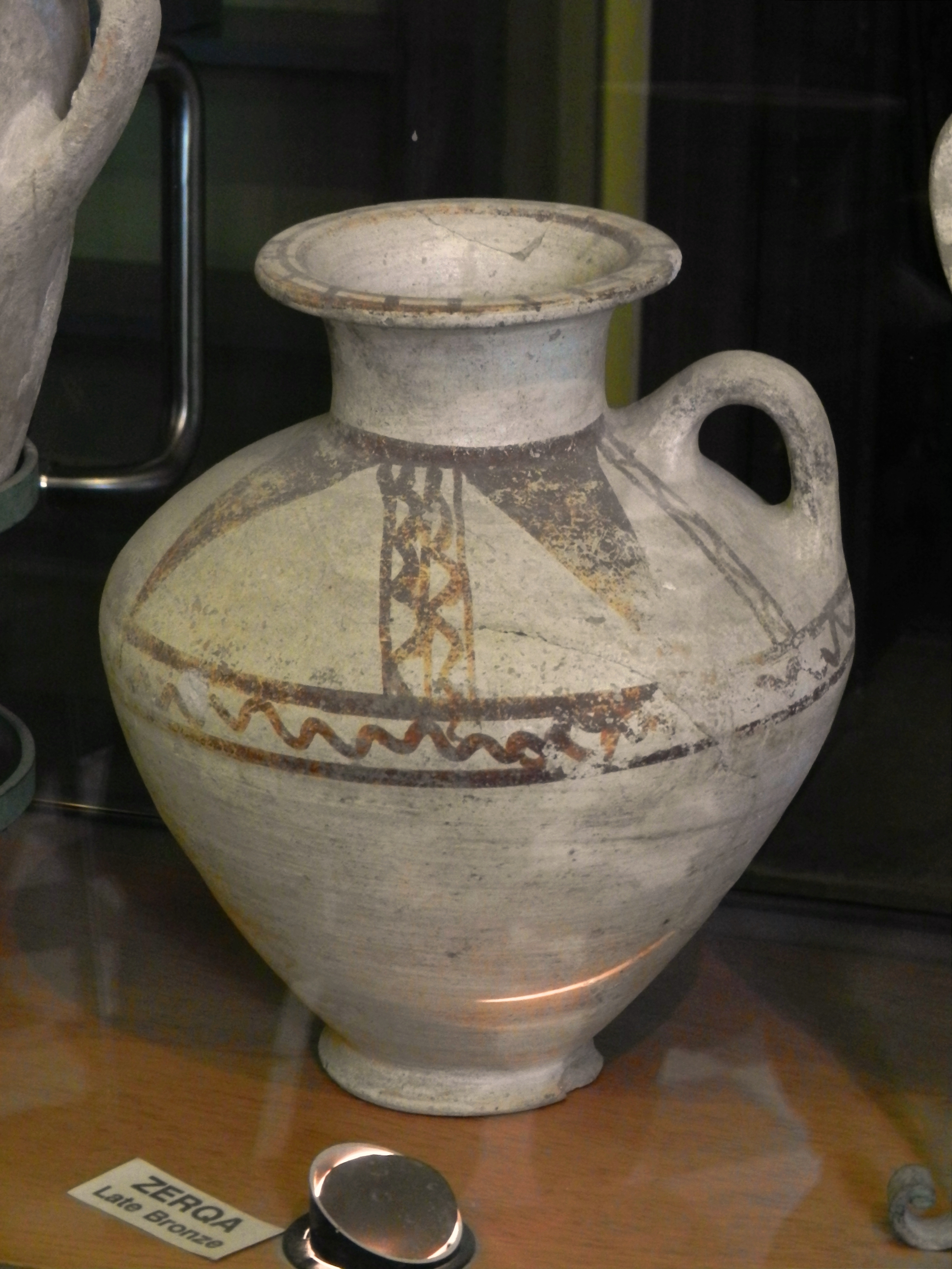 Chocolate on white ware jug Unknown